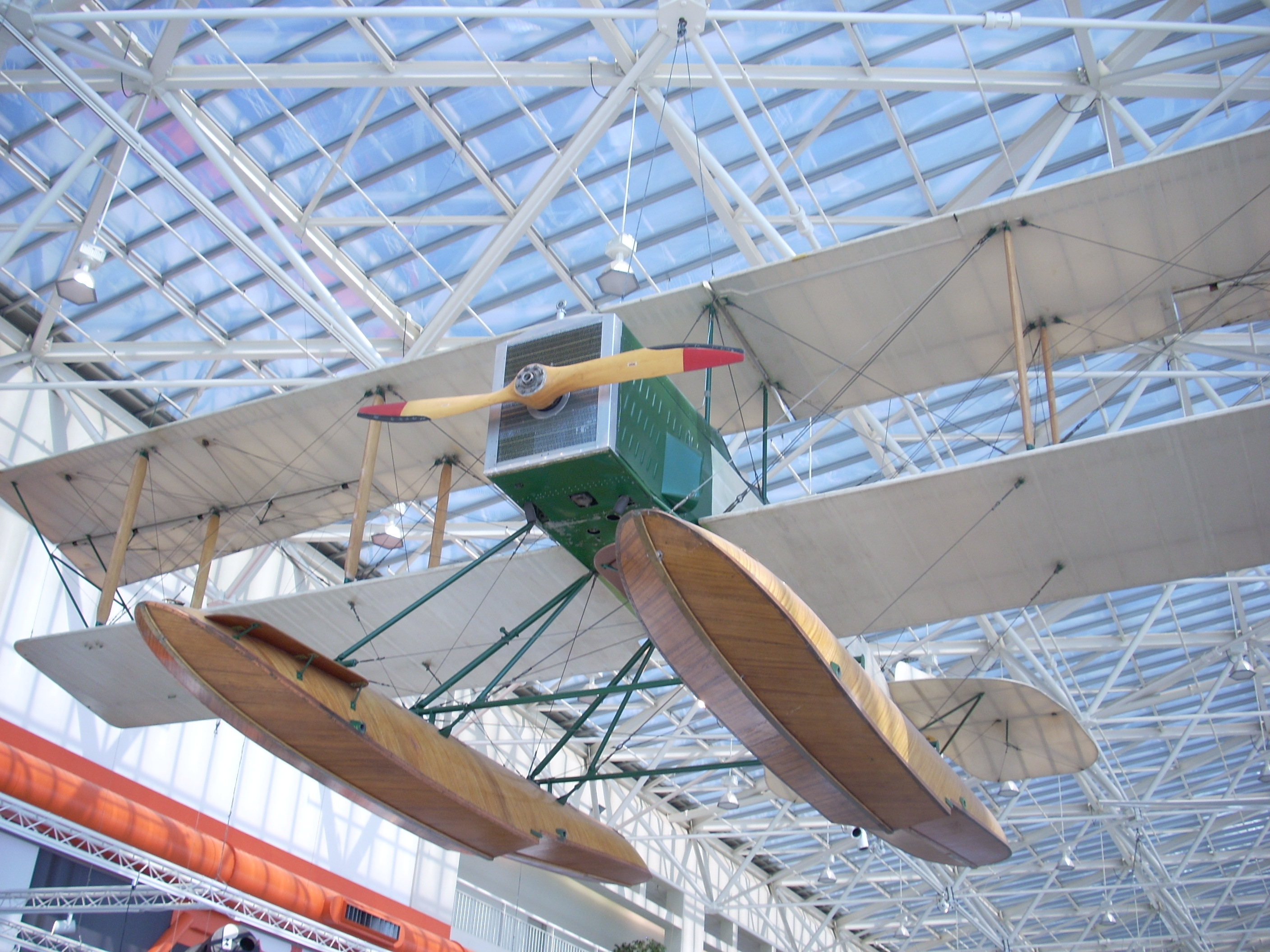 Replica of Boeing B&W Seaplane at the Museum of Flight, Seattle, Washington, USA